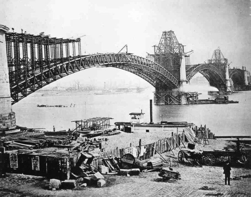 The Eads Bridge over the Mississippi River under construction in St. Louis, Missouri, in 1874 or earlier.